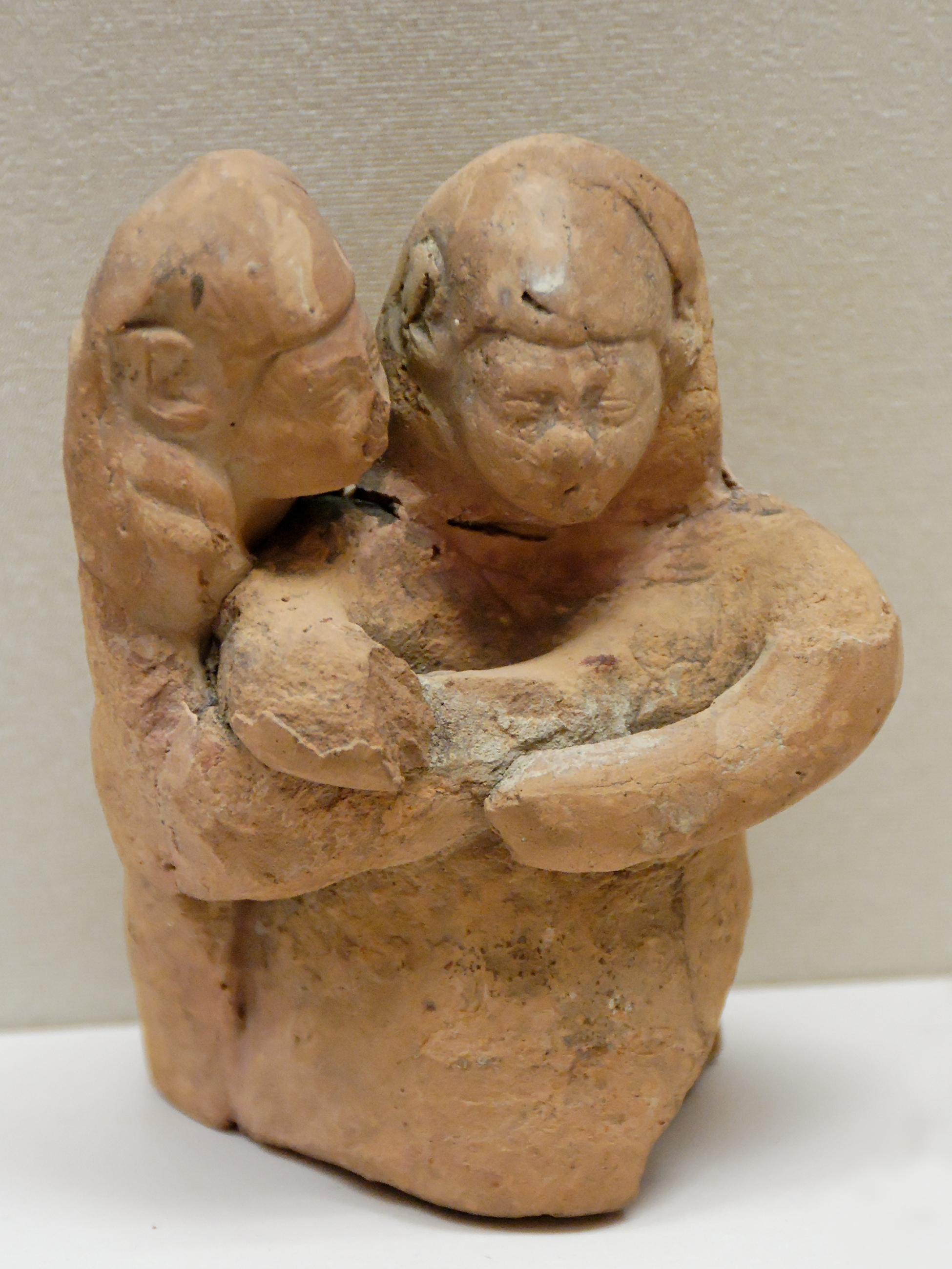 Birthgiving scene. Terracotta, Cypro-Archaic I (8th–6th centuries BC). From Cyprus.